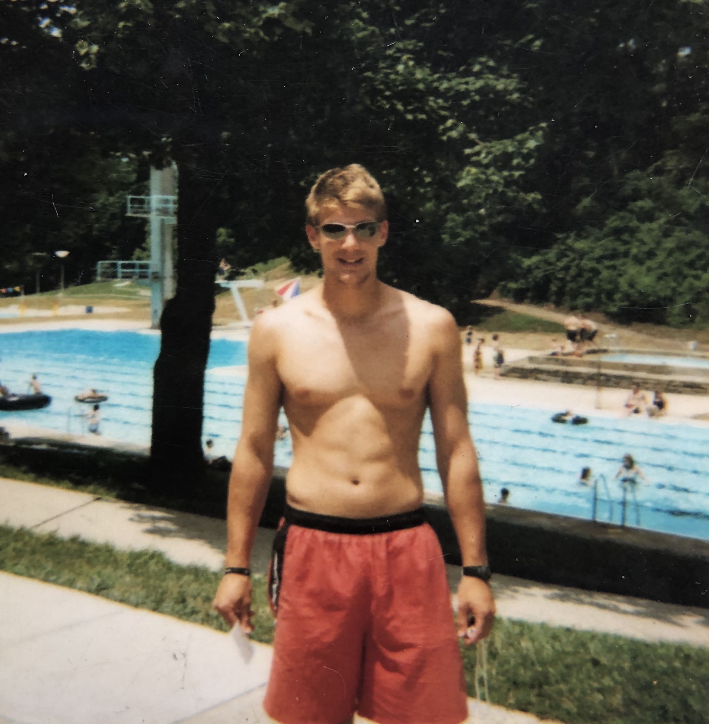 Eugene Botes in lifeguard uniform at Hidden Hollow Swim Club at some time in the 1990s.